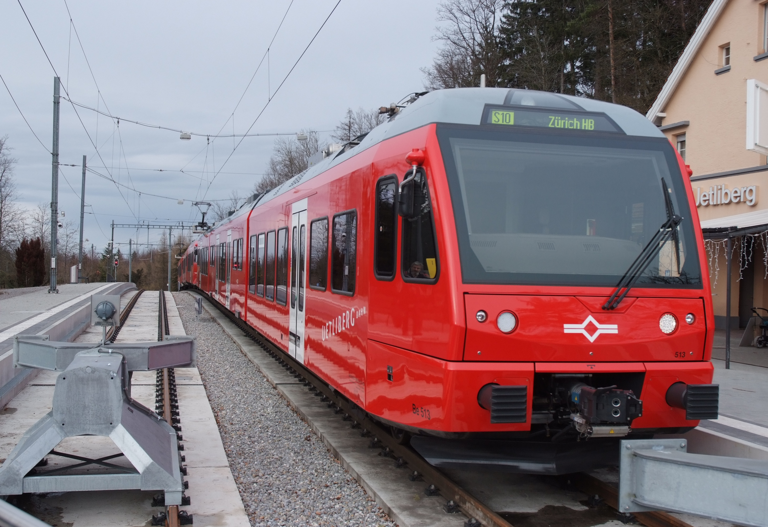 SZU Be 510 Nr 556 513 and 556 515 at Uetliberg hill station in Switzerland